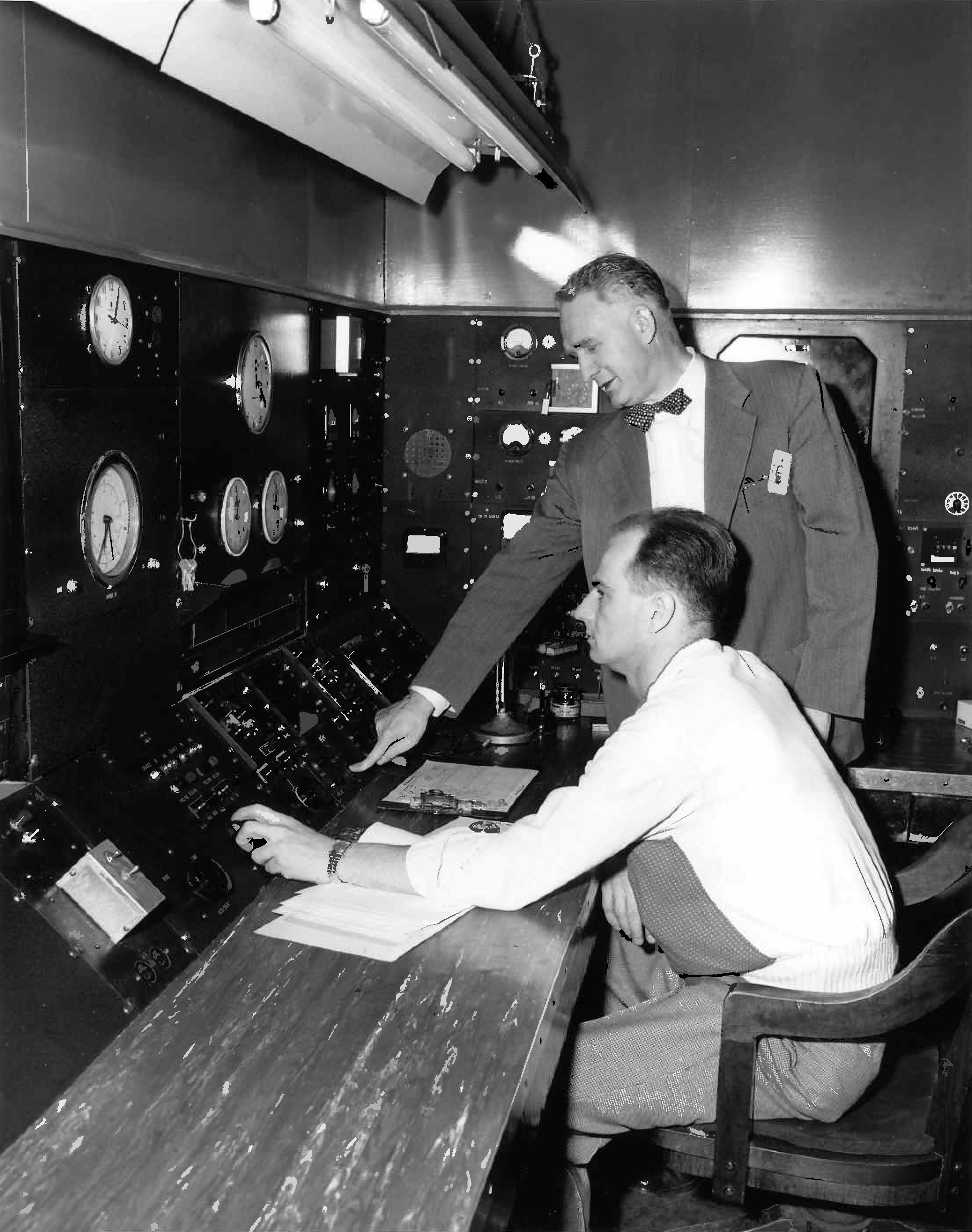 Fred Cokeing, pile operator with the longest experience at the lab, operates the controls as CP-3 makes its last irradiation. The Laboratory Director (Walter Zinn), who first made this machine critical May 15, 1944, presses the button which closes it down for good. Photo courtesy Argonne National Laboratory. Neg. No. 201-663